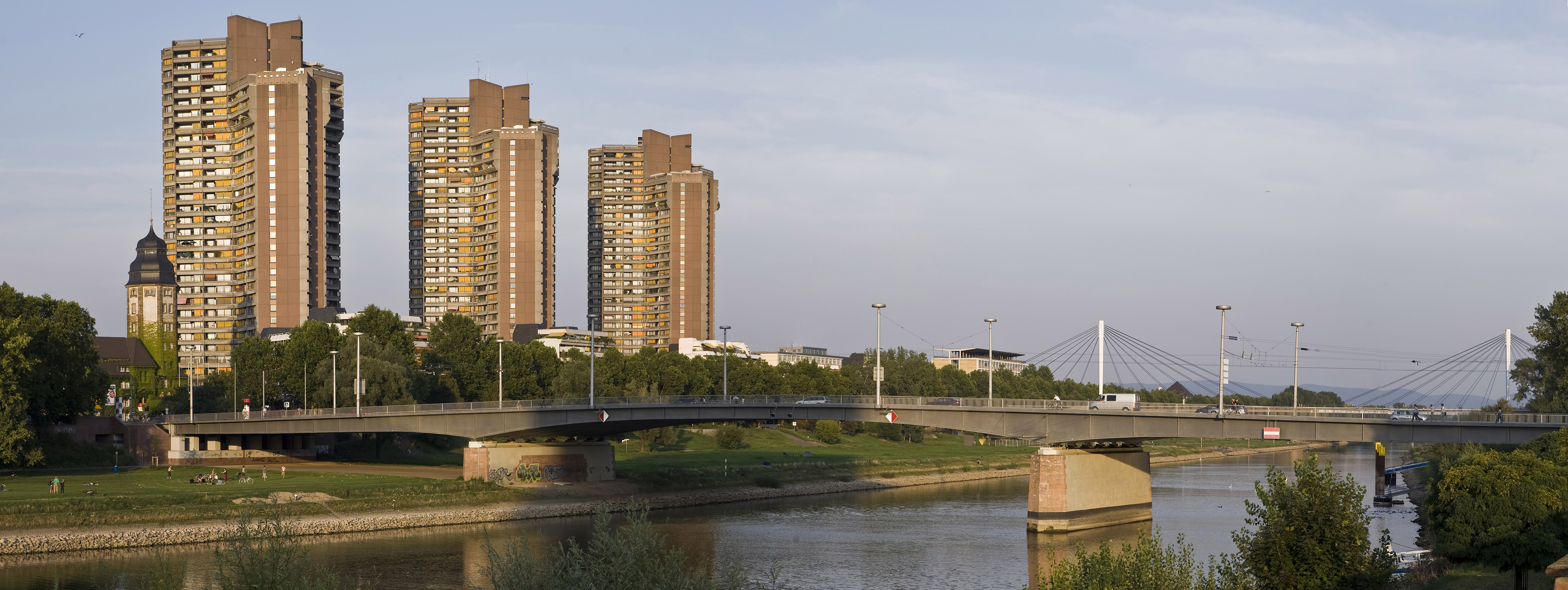 View from the Southside of Rive Neckar to the "Alte Feuerwace" and teh "Neckarstadt"